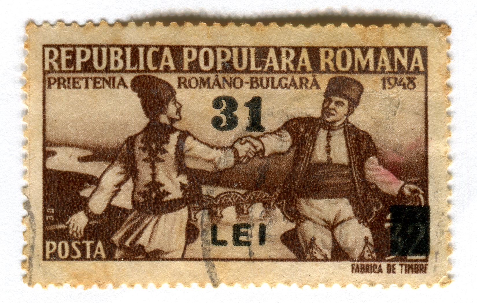 catalog #680A, c. 1948 Stamp depicts Romanian-Bulgarian friendship Designed by A. Murnu